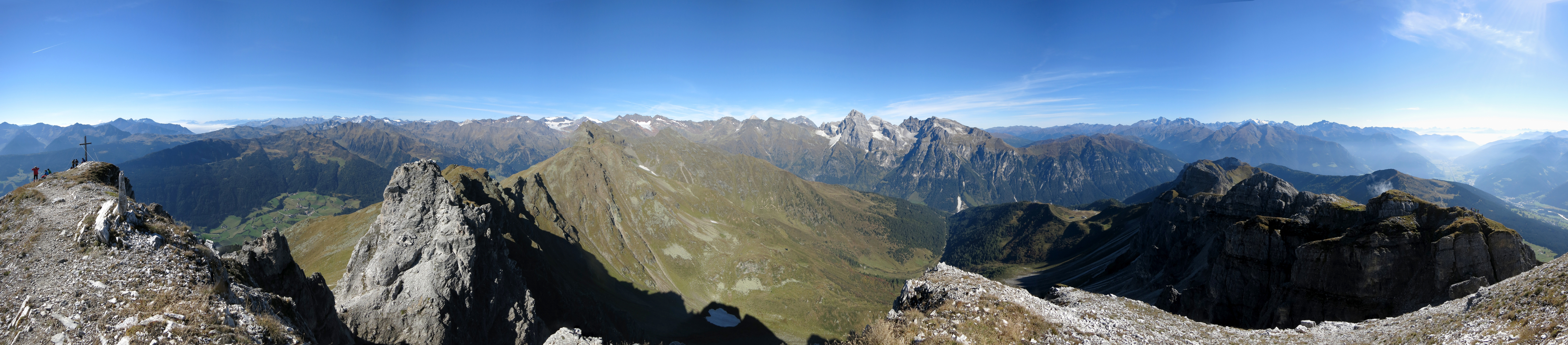 Panorama from mountain Telfer Weissen, Suedtirol